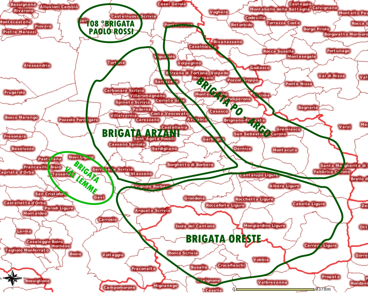 Distribution of Divisione Garibaldi "Pinan-Cichero" in 1945 in Liguria.